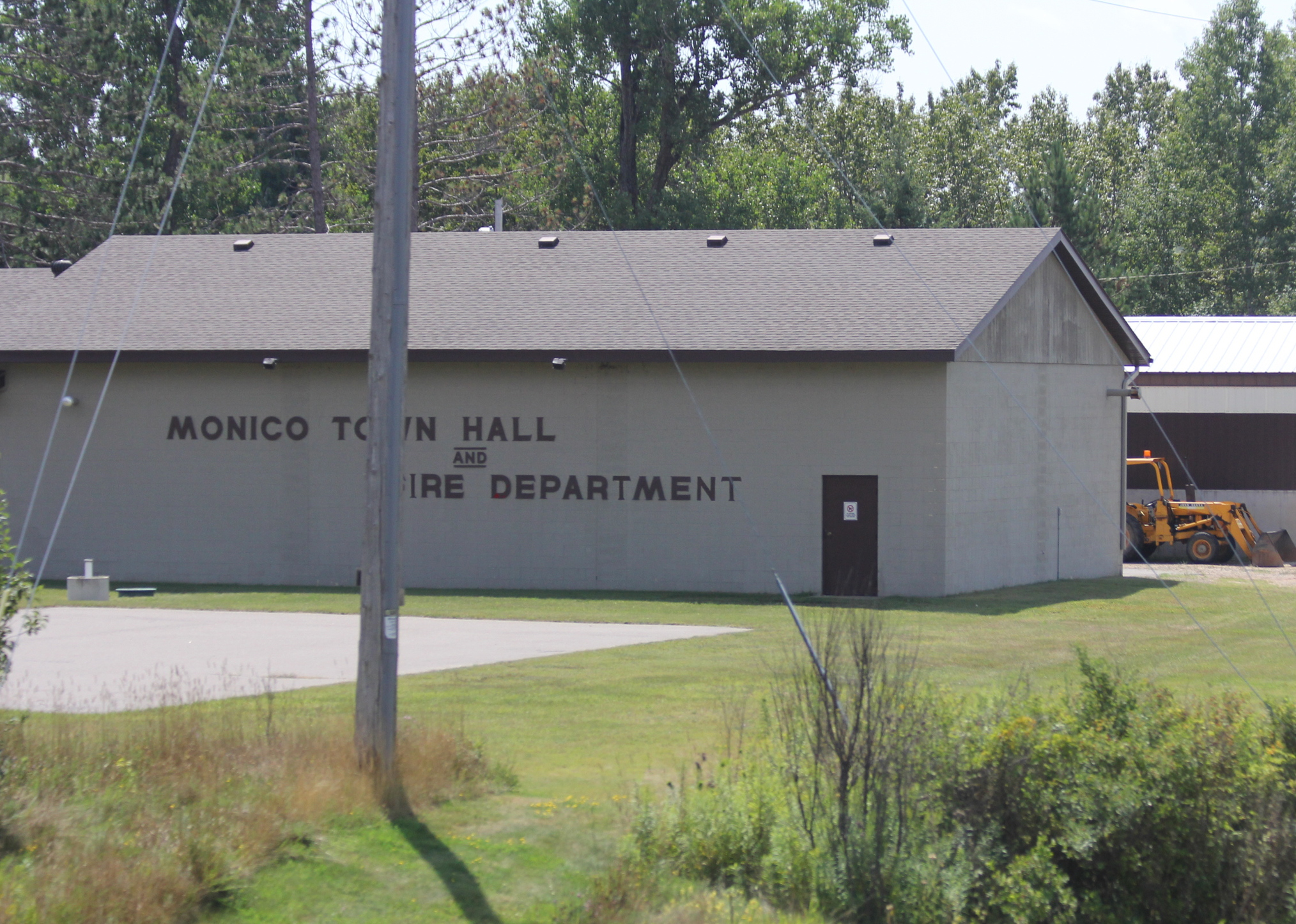 Looking at the town hall and fire department for the town of Monico, Wisconsin along U.S. Route 45 / U.S. Route 8.